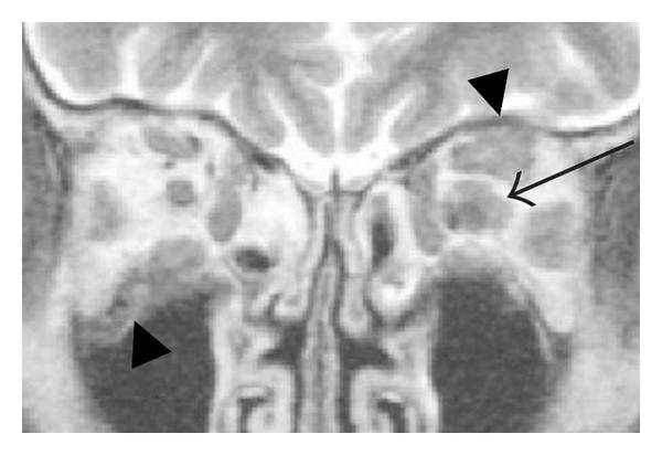 IgG4-related orbital inflammatory lesions: Swelling of the left superior and lateral rectus muscles, a mass lesion around the left optic disc (arrow), and enlargements of the left supraorbital nerve and the right infraorbital nerve (arrow heads) were seen in a 60-year-old man with a serum IgG4 of 463 mg/dL. (T1-weighted magnetic resonance image)